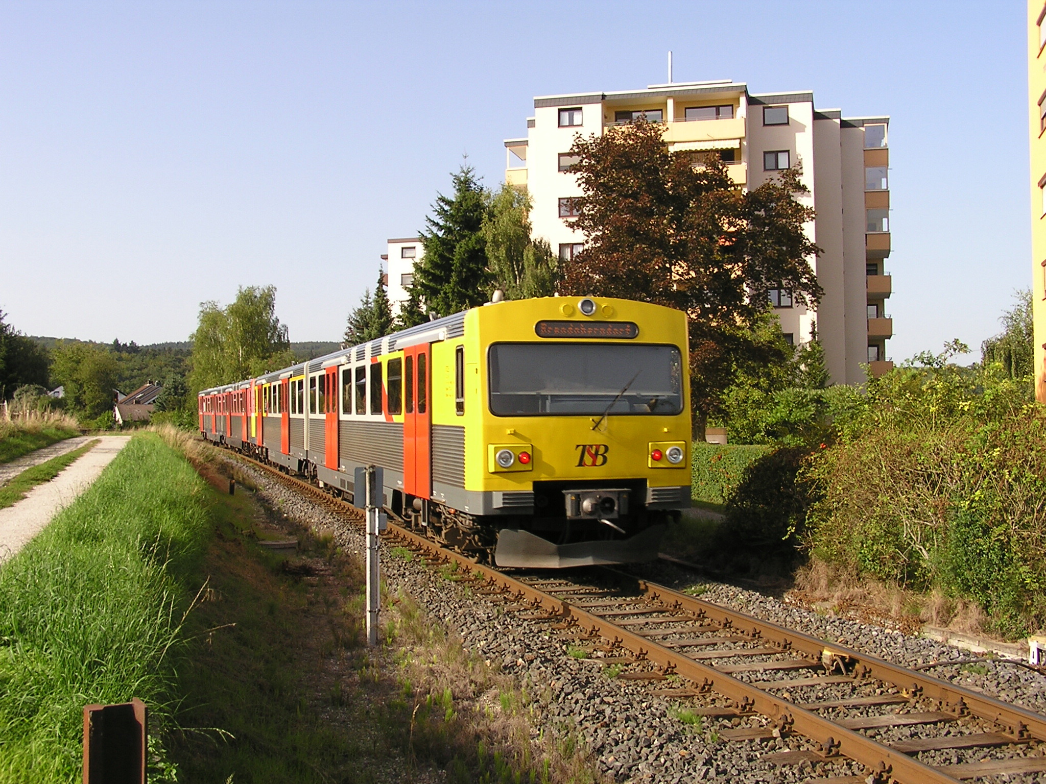 VT 2E of the Taunusbahn (renovated in 2006) leaves the station Friedrichsdorf-Köppern